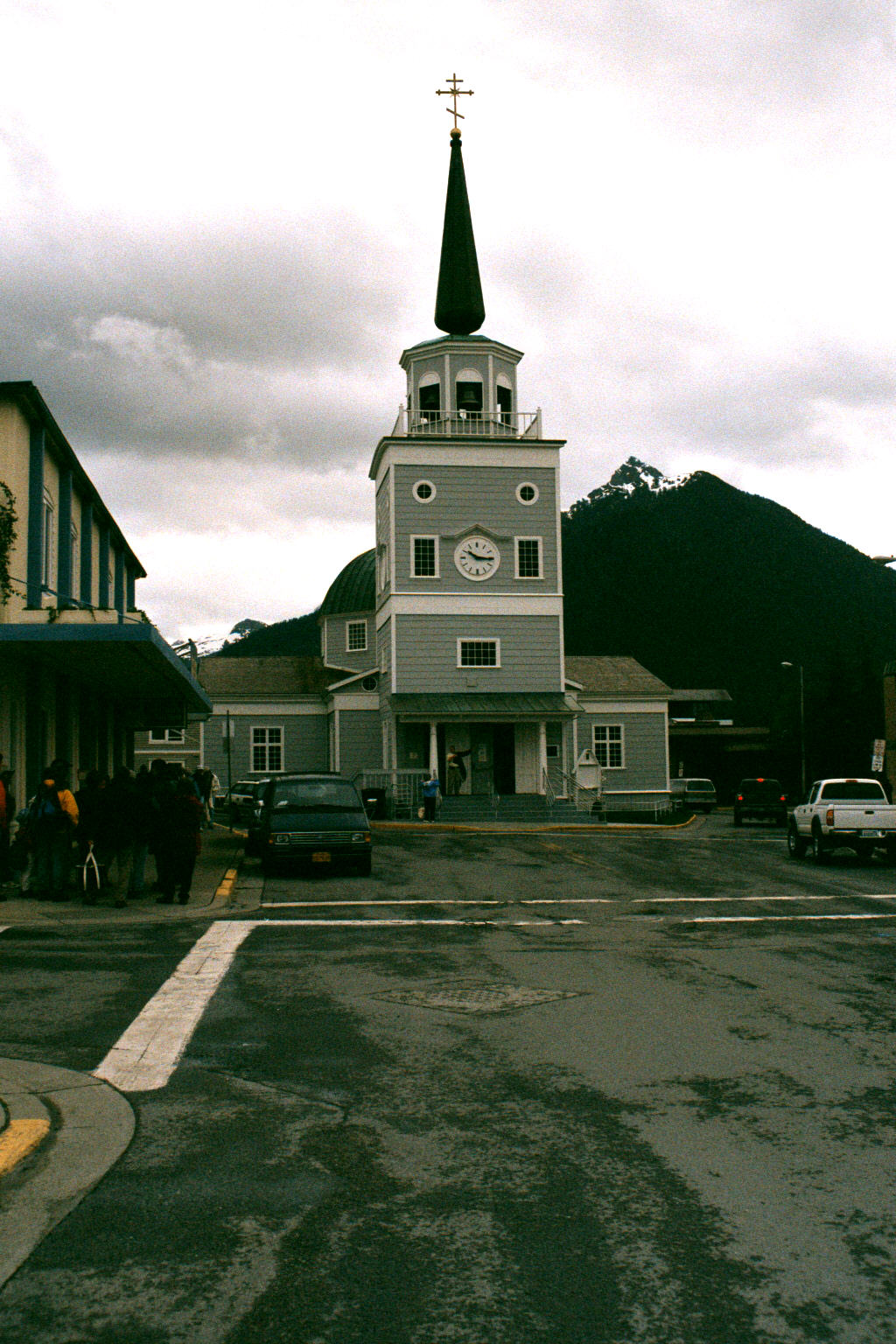 The Cathedral of Saint Michael in Sitka, Alaska, in May 2002. Photograph by Robert A. Estremo, copyright 2002.